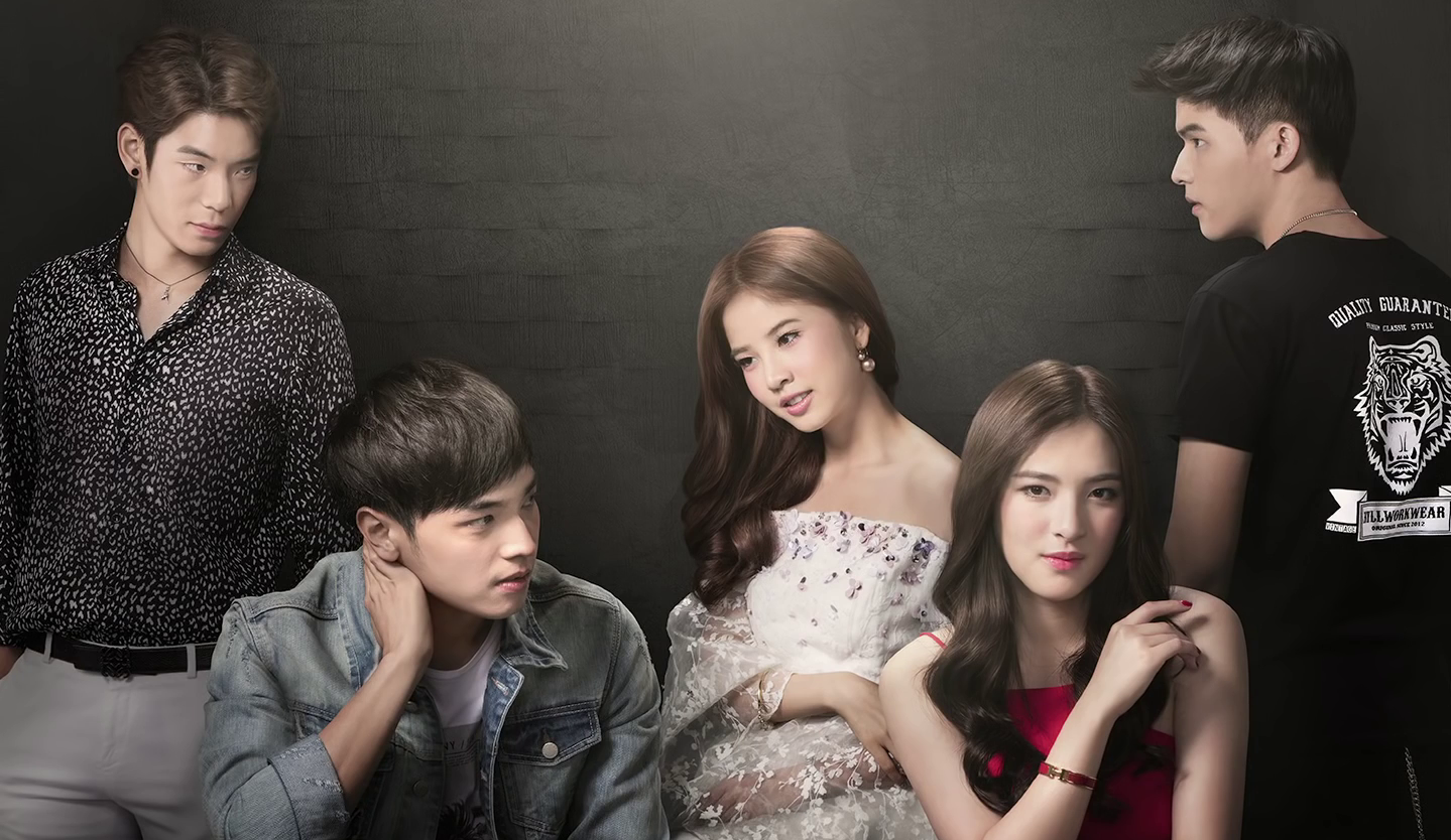 Screen capture from trailer of I Hate You I Love You